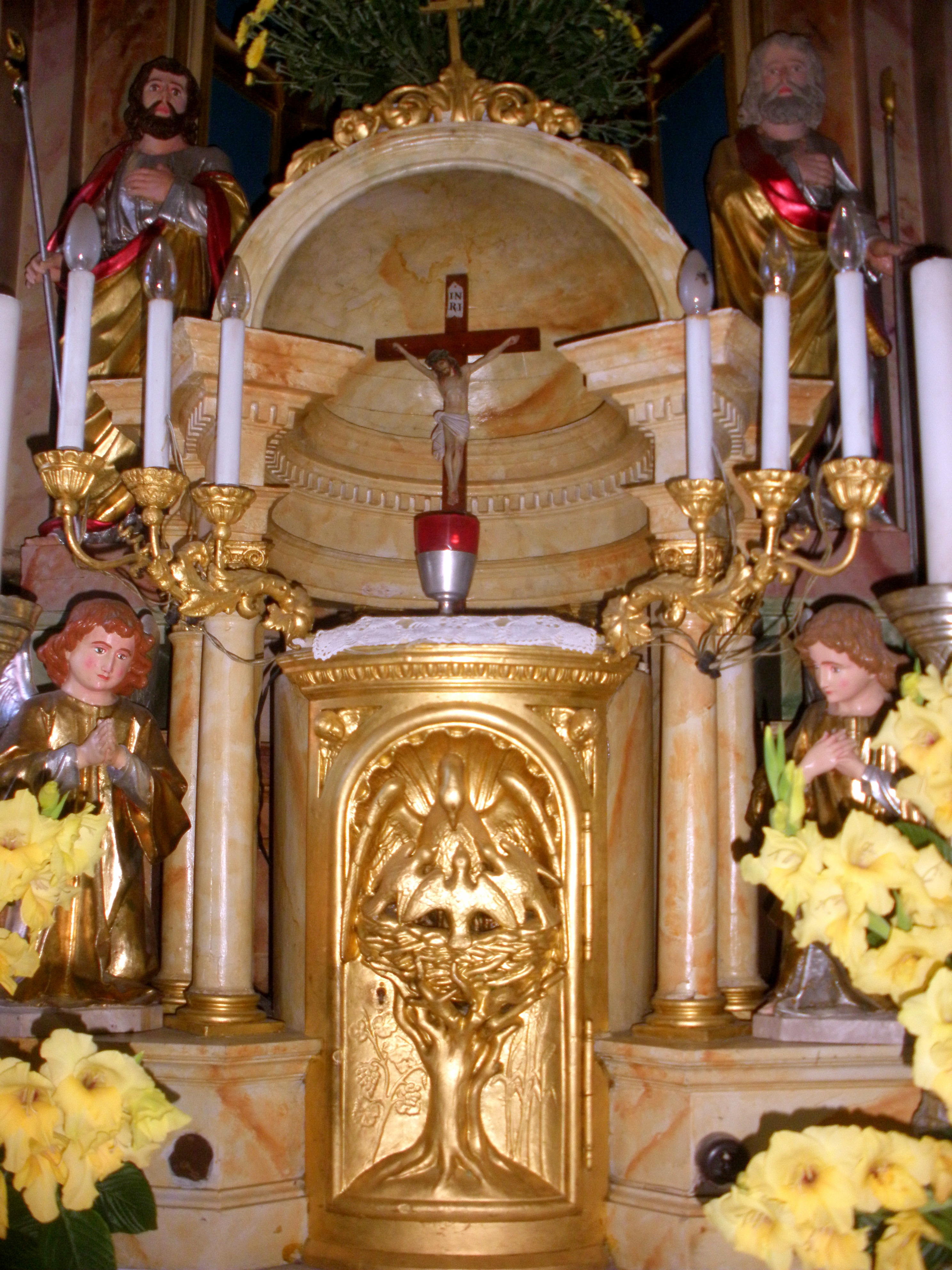 Tabernacle in church of Maria Nives on Gora near Sodražica in Slovenia